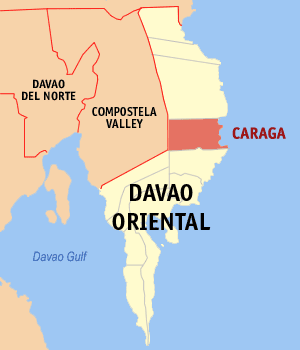 Map of the Davao Oriental showing the location of Caraga